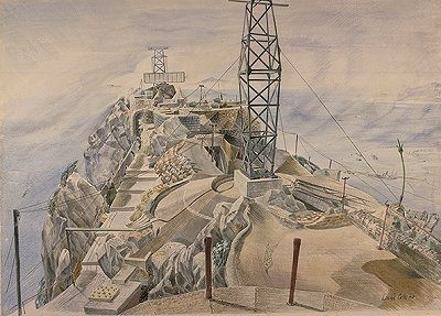 "Defence Positions from Rock Gun, Gibraltar, Looking Towards Africa" by Leslie Cole War artist ref IWM:ART LD 3561. Water Colour of view towards Africa, Radar etc. Dated from Second World War